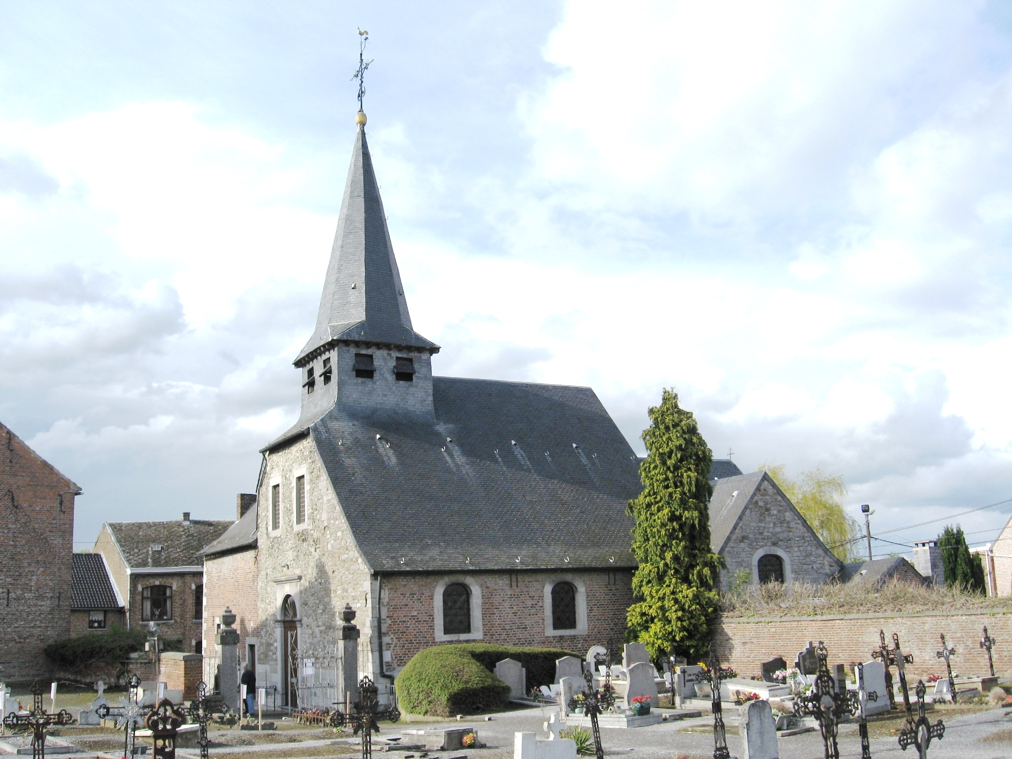 Church of Saint Bricius in Hollogne-sur-Geer, Geer, Liège, Belgium